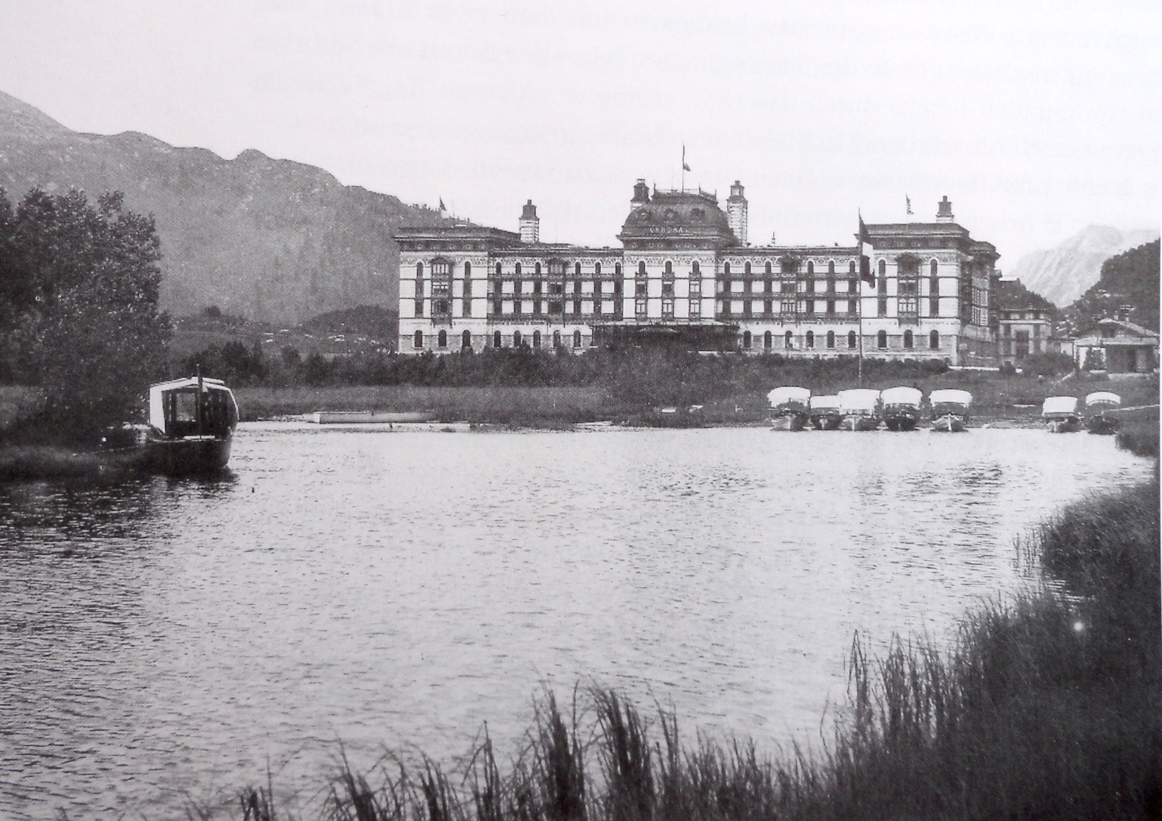 The Majola Palace hotel, Switzerland, in about 1900